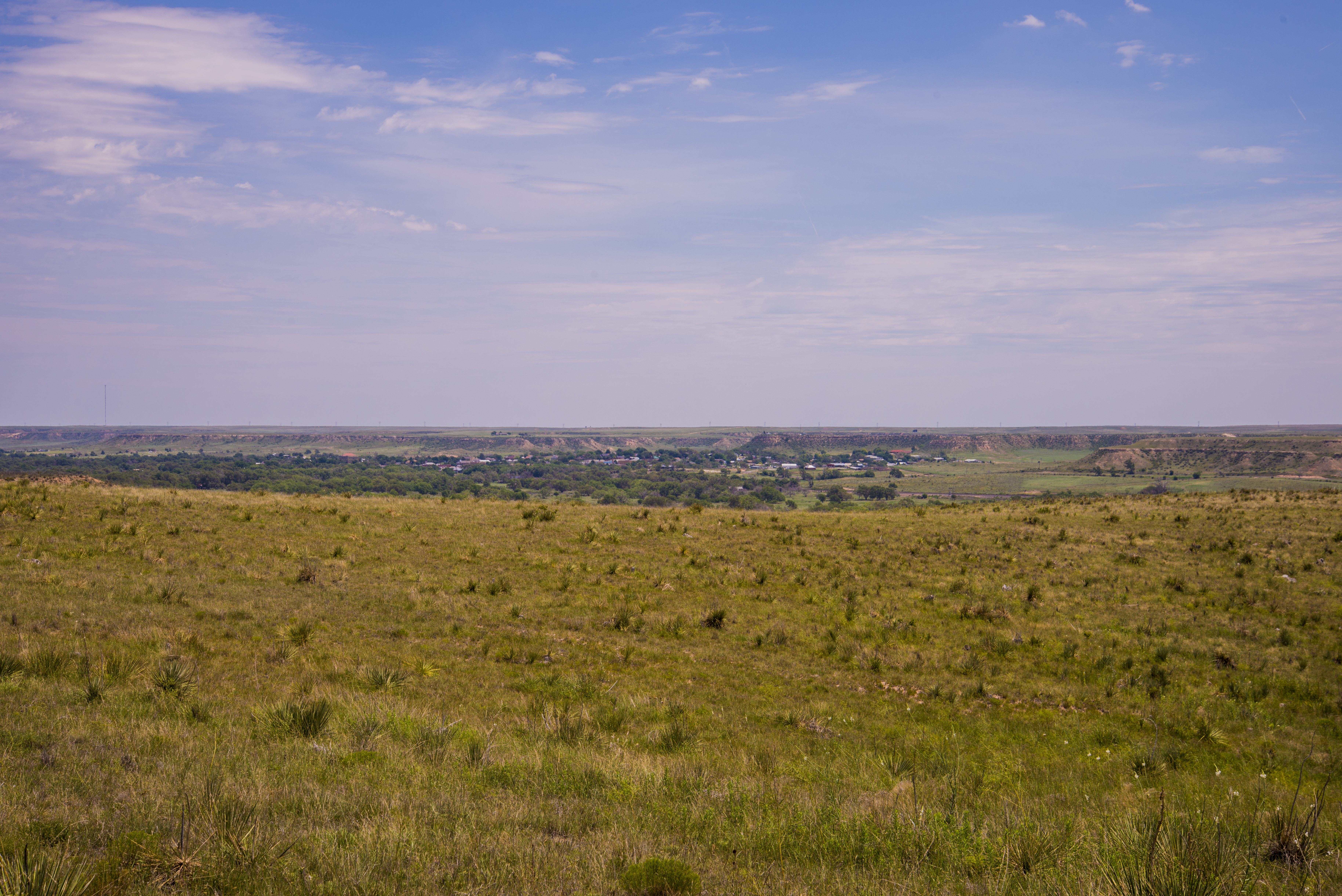 Overlookng Miami from the south